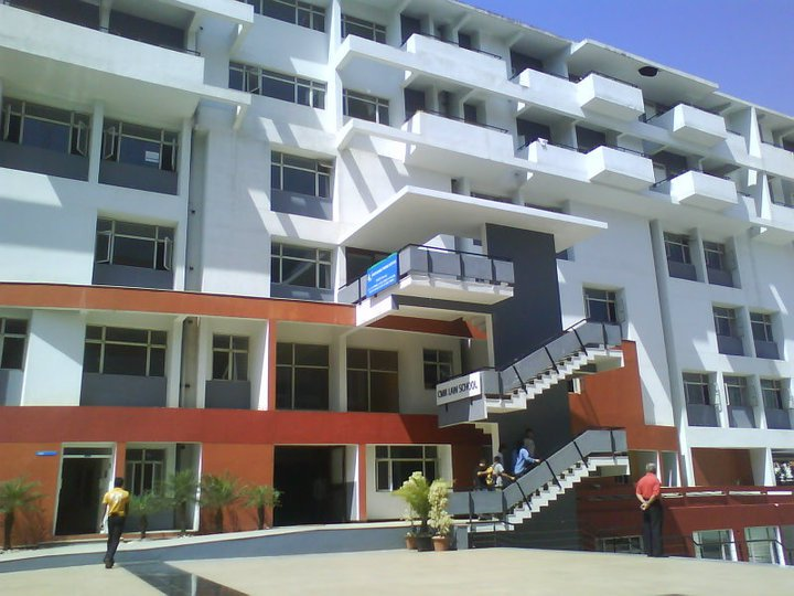 View of the CMR law school building from the court yard